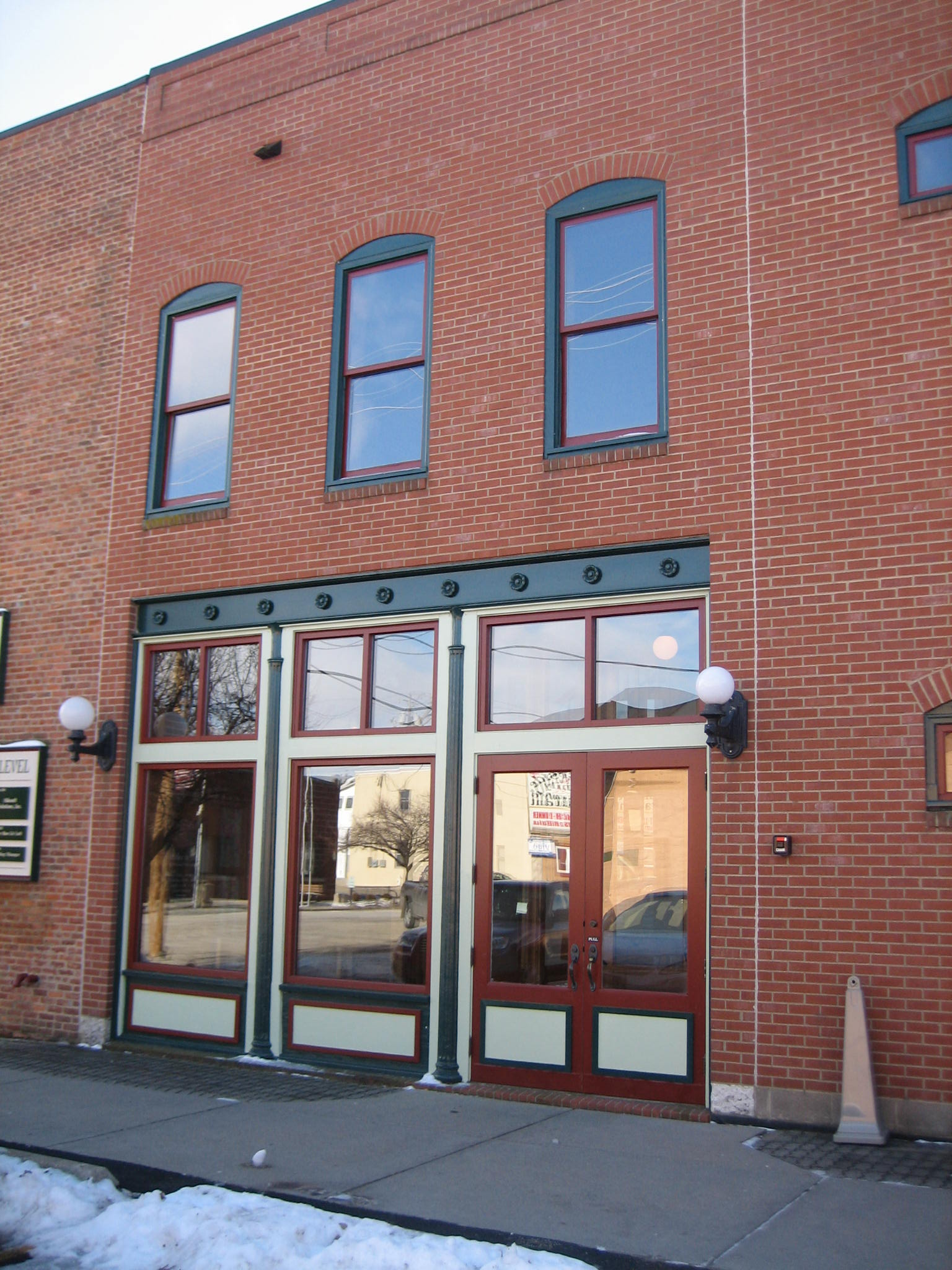 F.G. Jones Block, Washington Center and 300 Washington , c. 1868, 1868 and 1870, Oregon, Illinois. National Register of Historic Places as part of the Oregon Commercial Historic District.